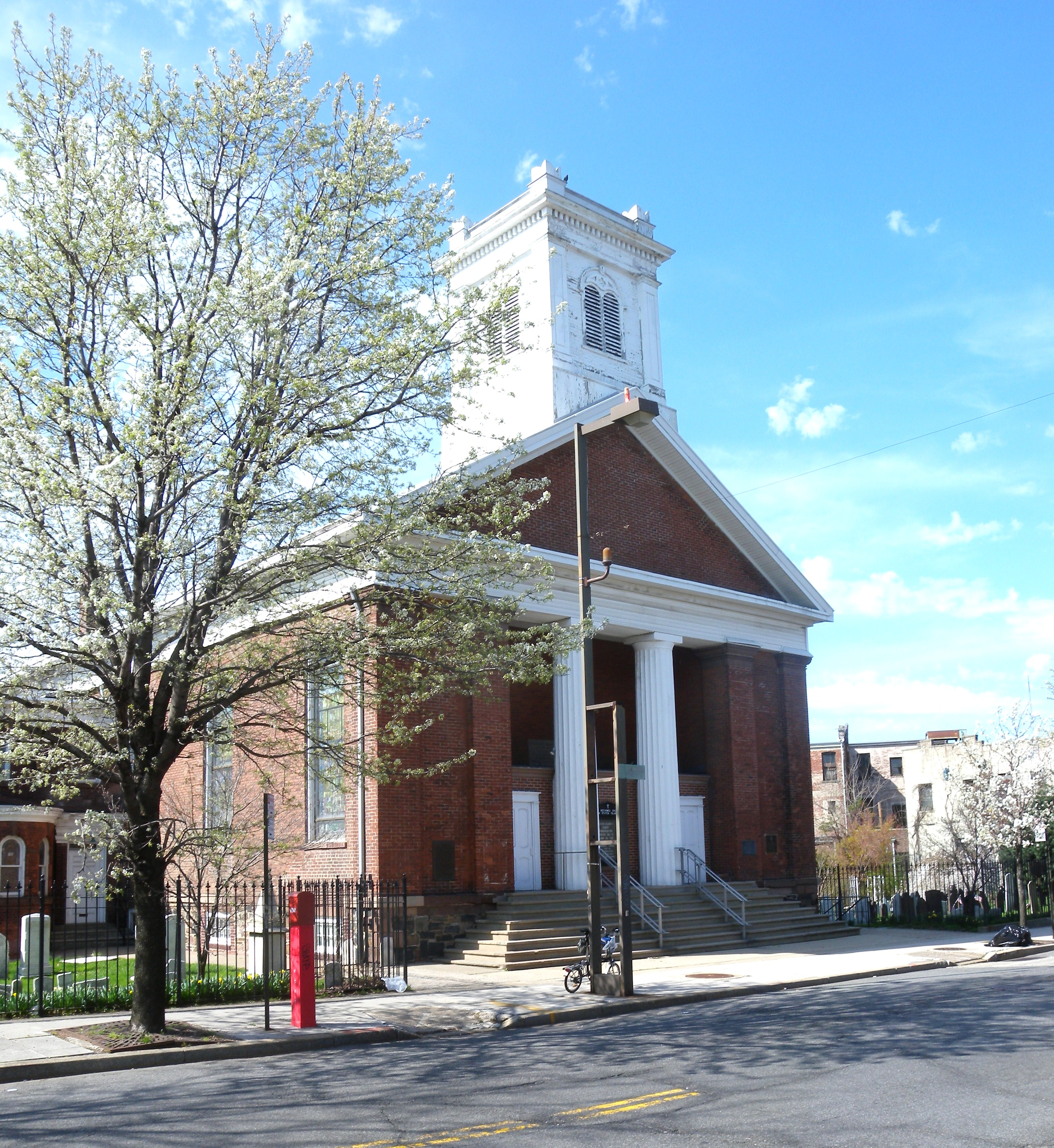 Looking north across Port Richmond Avenue at Reformed Church on Staten Island on a sunny midday.